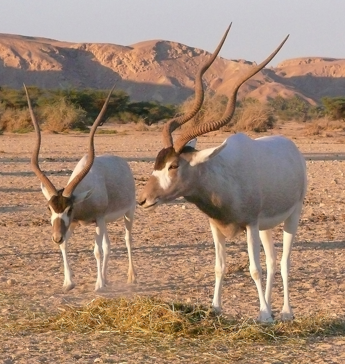 Addax nasomaculatus, Chay-Bar Yotvata, Israel